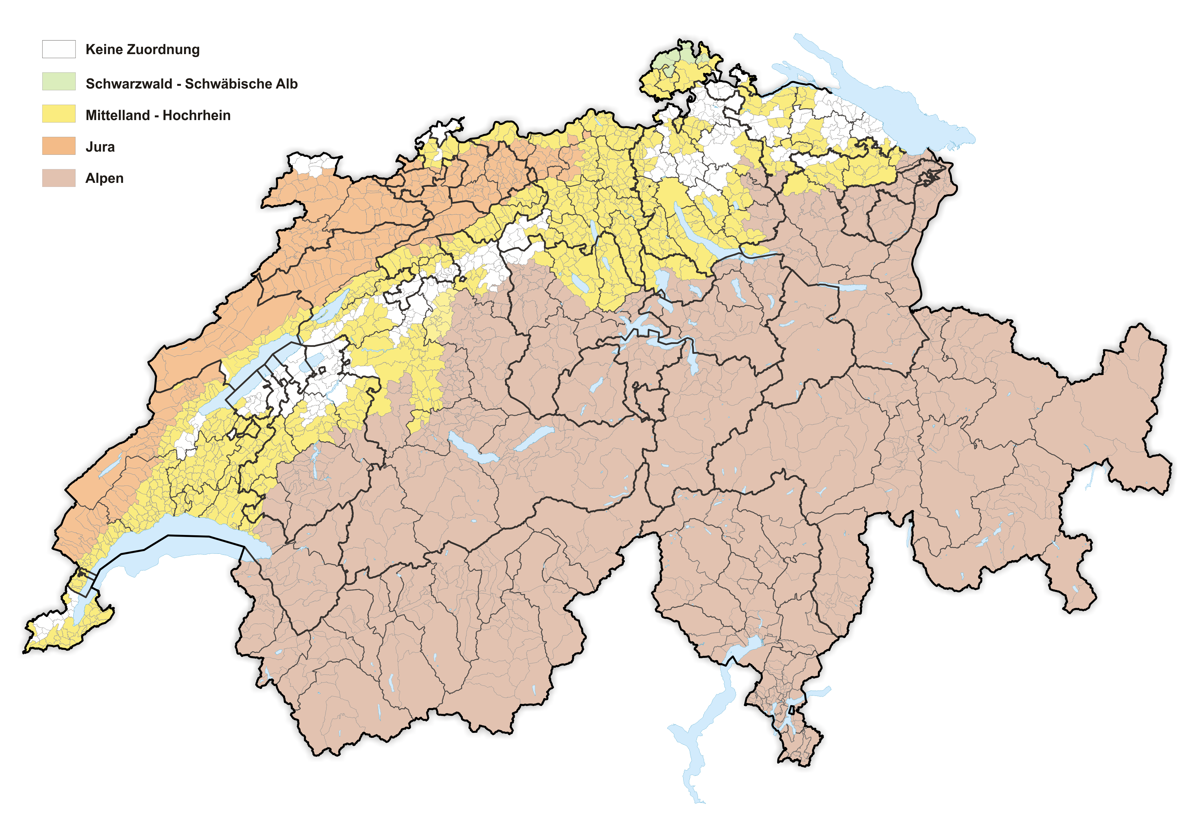 Swiss Mountain area regions